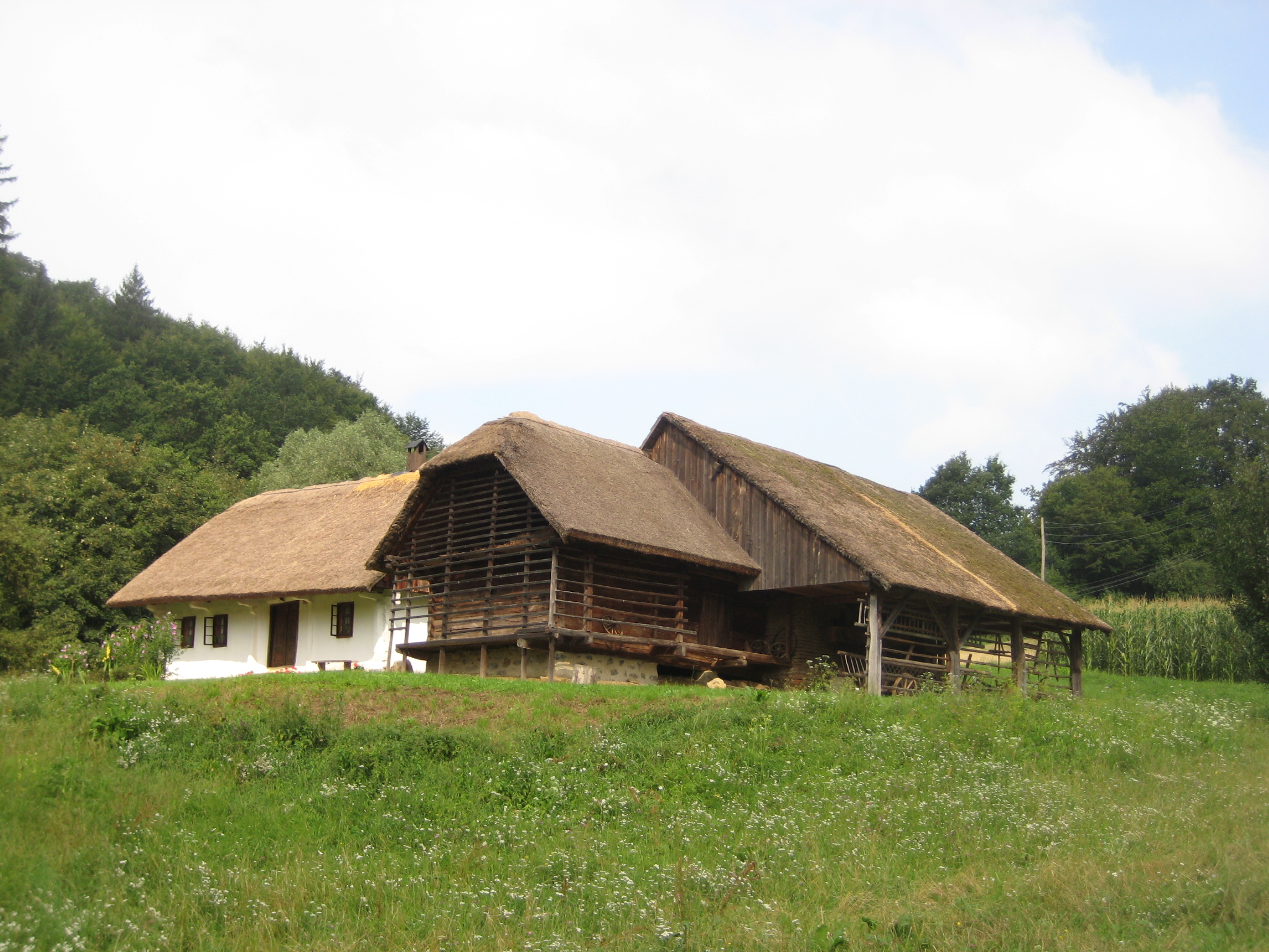 Junež farm, Rogaška Slatina, Slovenia